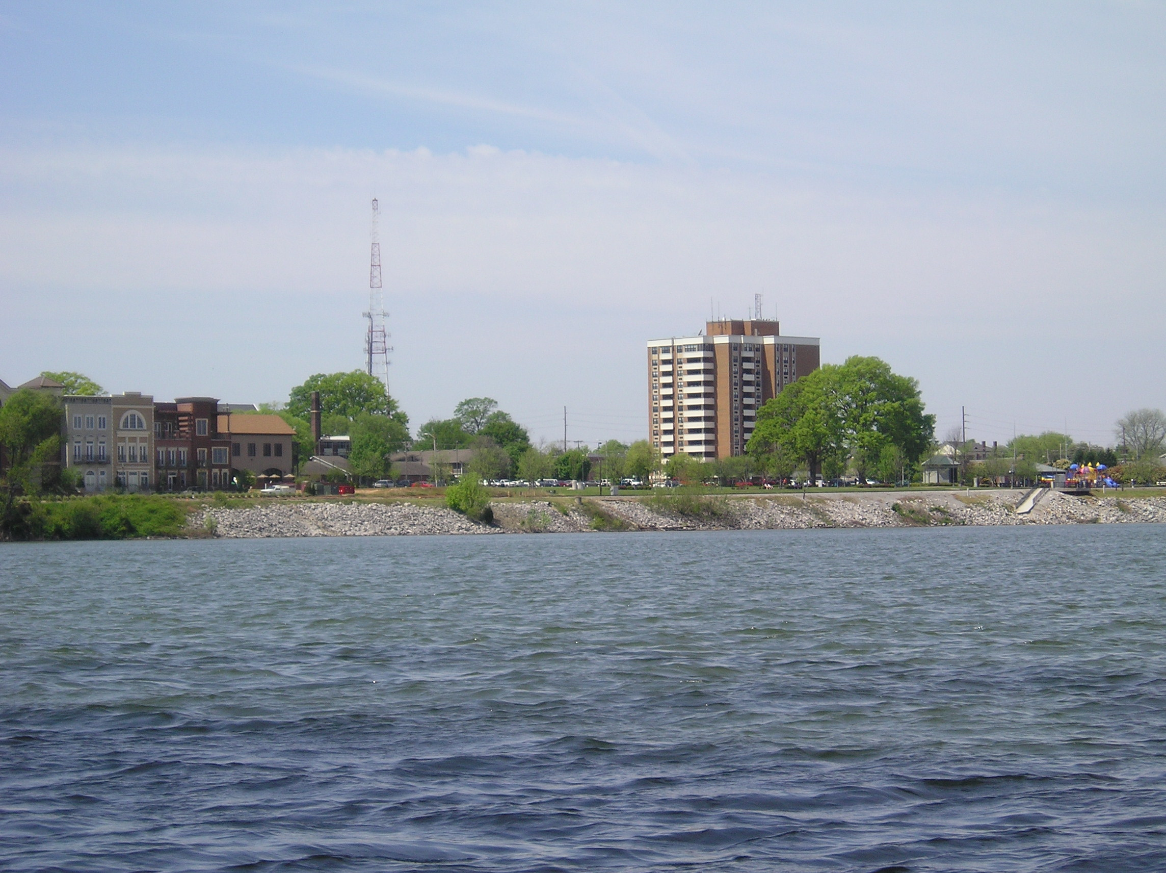 Summary Decatur from the Tennessee River Category:Decatur, Alabama